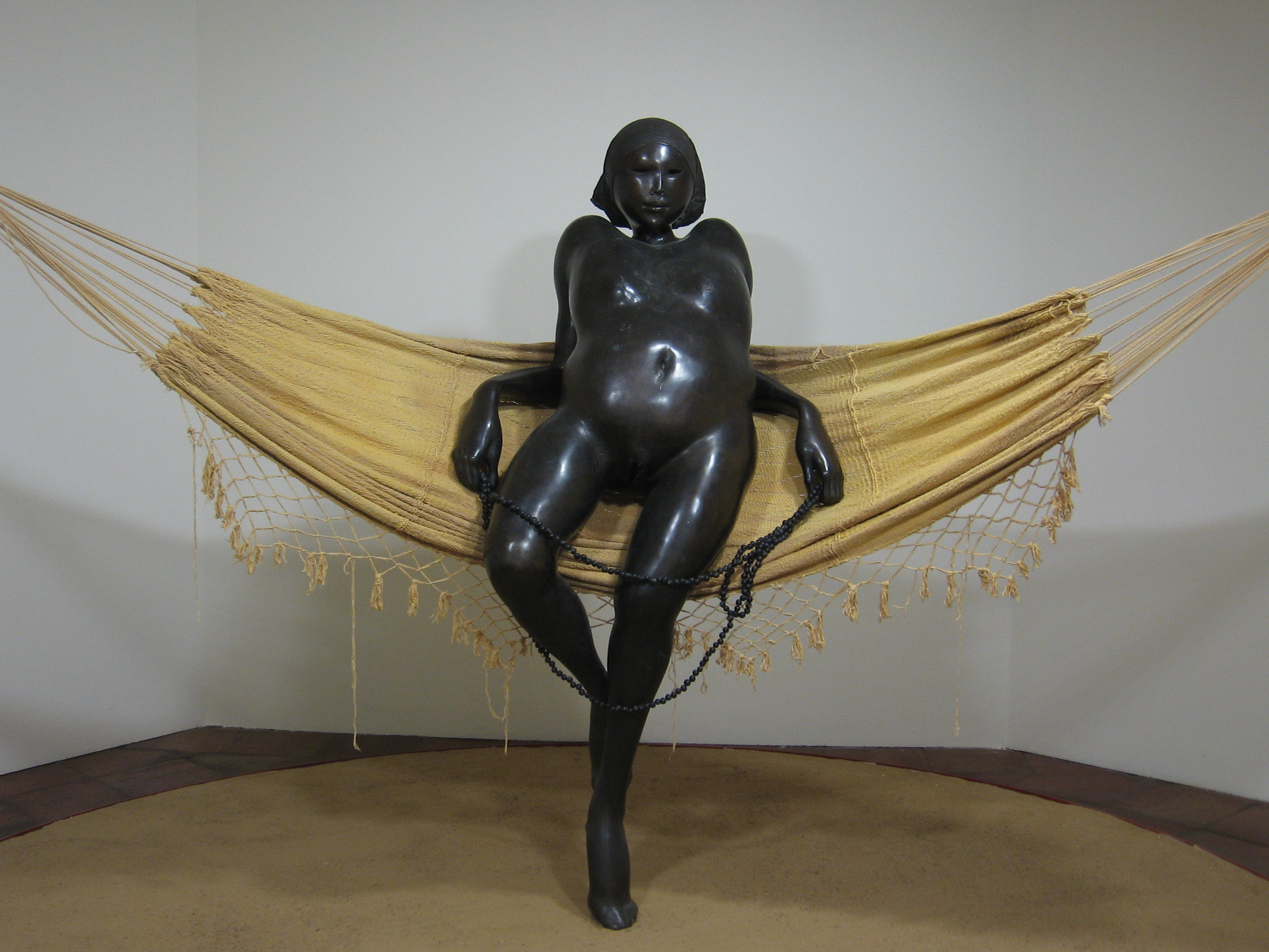 L'inconnue, Cornelis Zitman